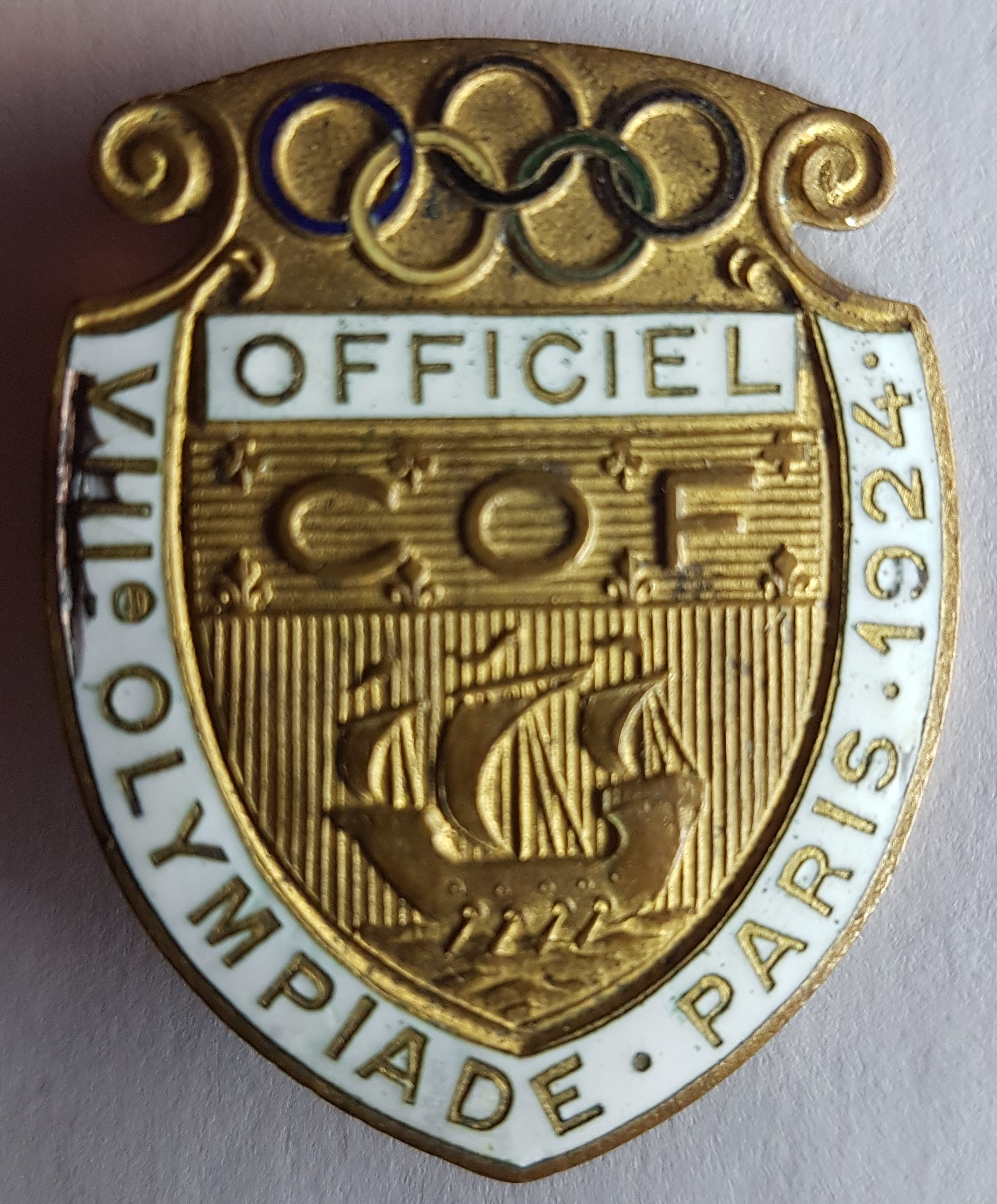 Olympic Games 1924 Paris badge